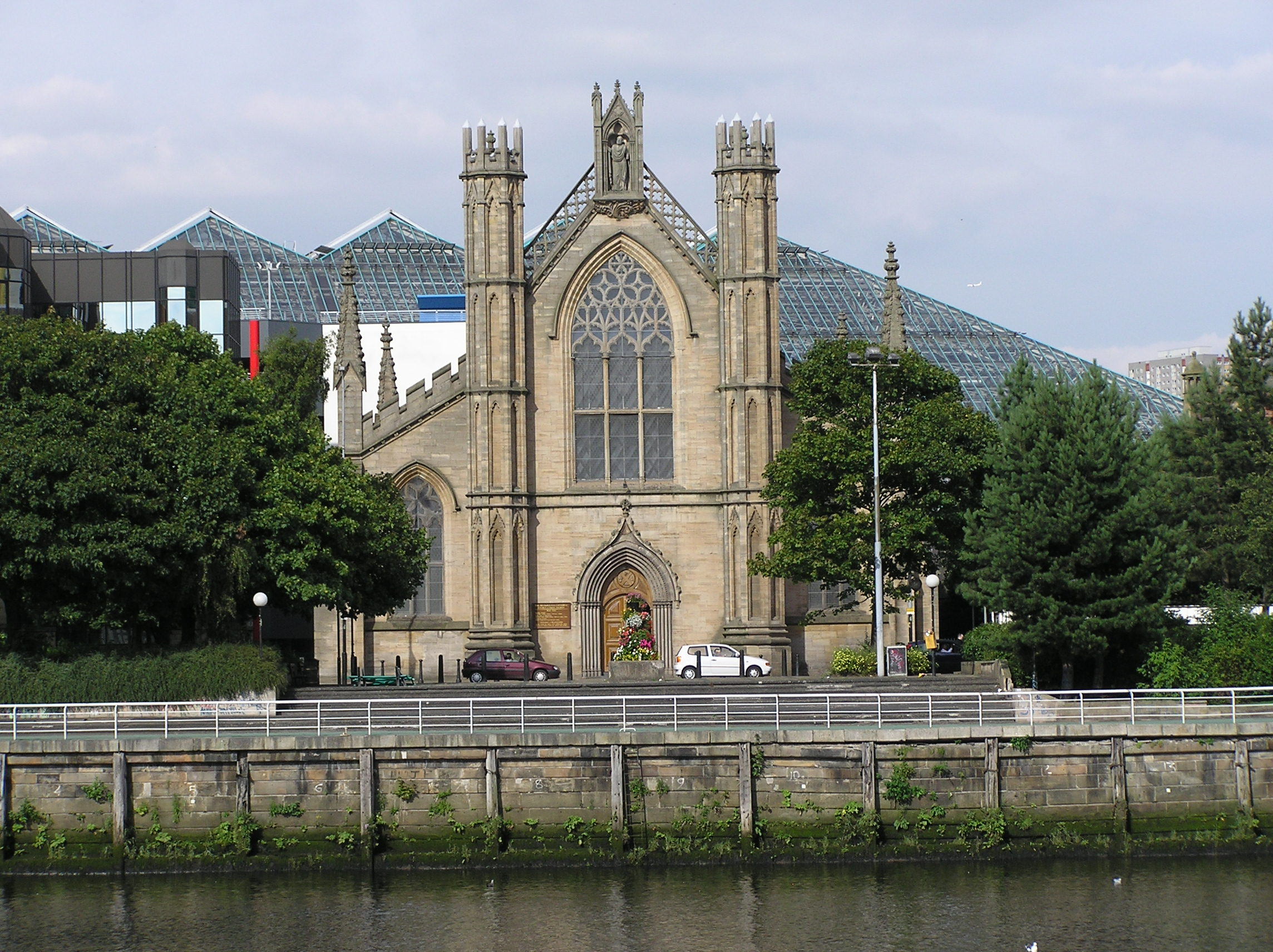 St.Andrews R.C. Cathedral in Glasgow, Scotland Taken by user:Finlay McWalter on the 3rd of September 2005